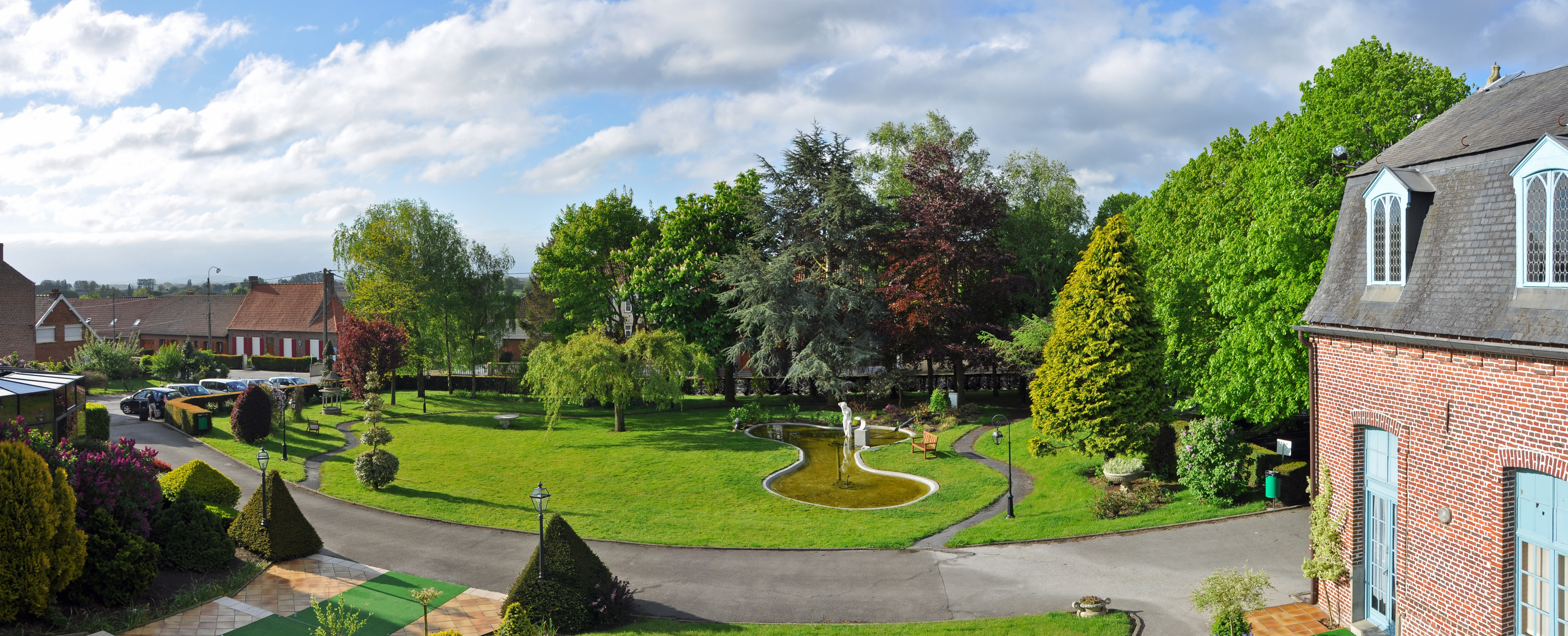 Bollezeele (département du Nord, France): hostellerie Saint-Louis - the garden